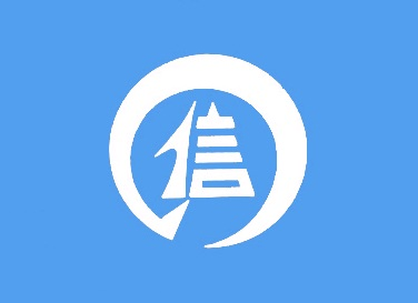 Flag of Shinano Nagnao